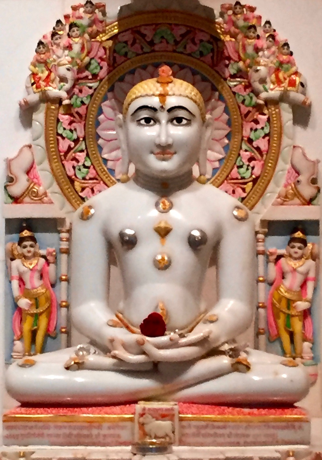 Rishabhanatha statue with shrivatsa mark on chest and the bull marked below the feet for identification purposes Derivative work on the following wikimedia file available on creative commons license: Lord Adinath JCNJ.jpg